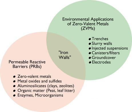 Venn Diagram showing the relative uses of "iron walls", zero valent metals, and permeable reactive barriers